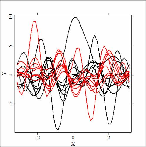 A computer graph created by trial and error.